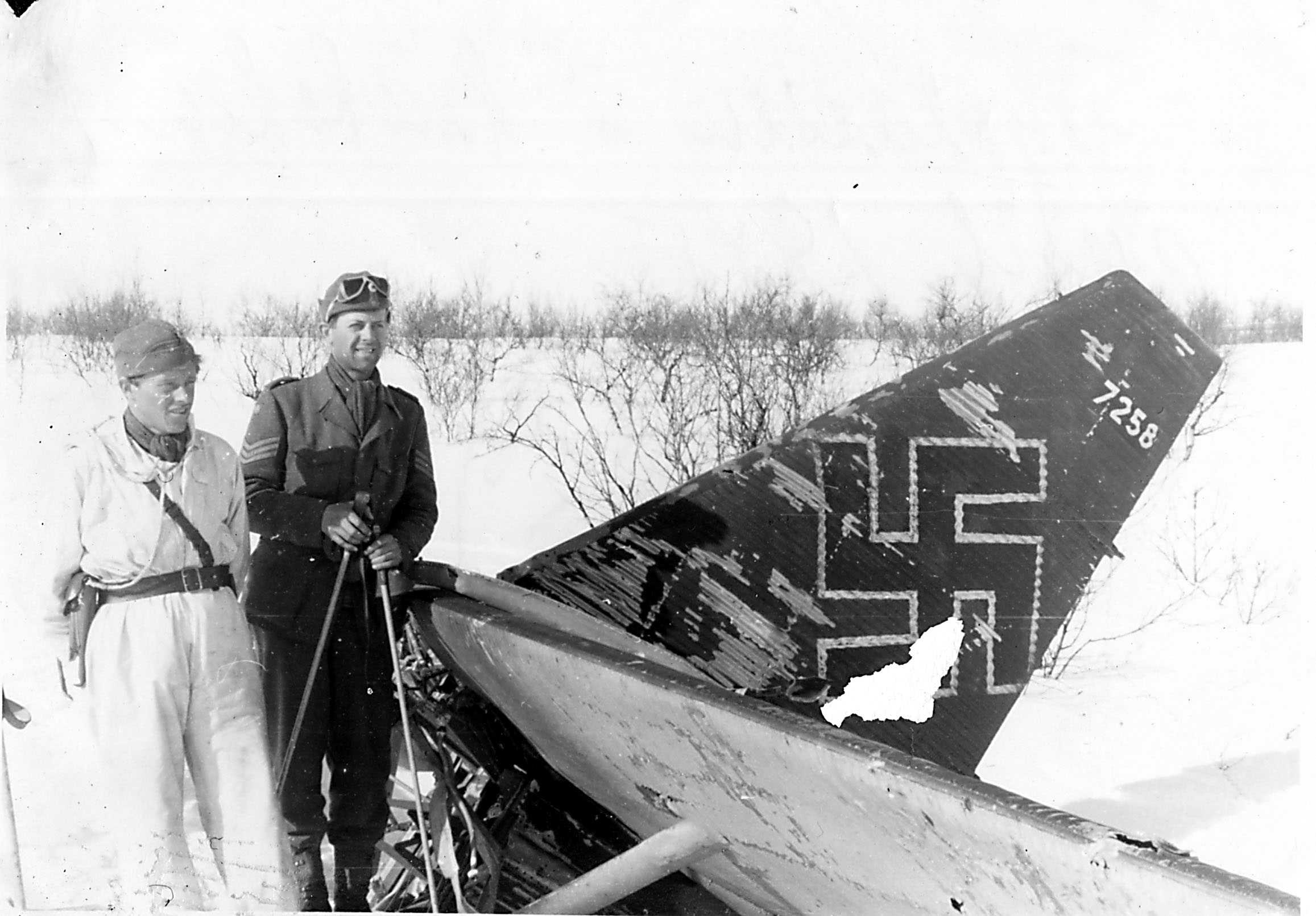 Photo from National Archives of Norway's Flickr-Album "Sykepleier Marie Lysnes' album" ("Album of nurse Marie Lysnes", all images marked with "No known copyright restrictions")